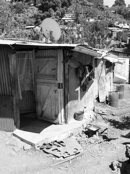 In Kawéni, Mayotte, there is this one house on a corner which is always full of people.